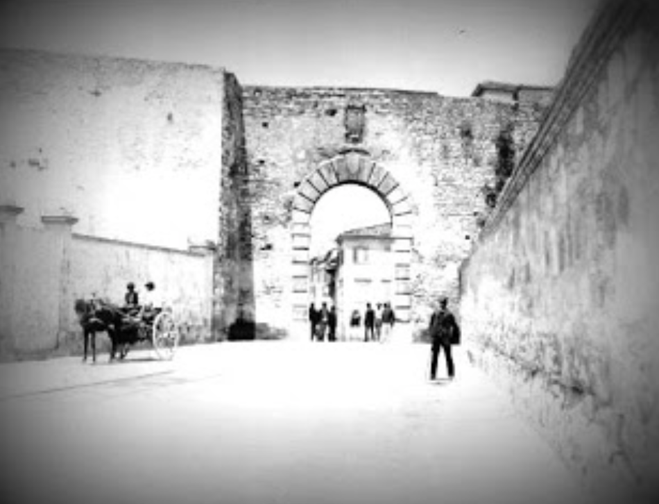 old city wall prato italy